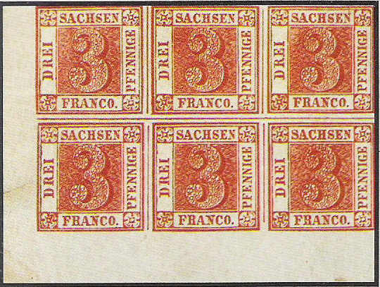 Saxonia 3 Pfennig, one of the first German Old State stamps, 1850, largest known block in this brown-red color (Grobe)